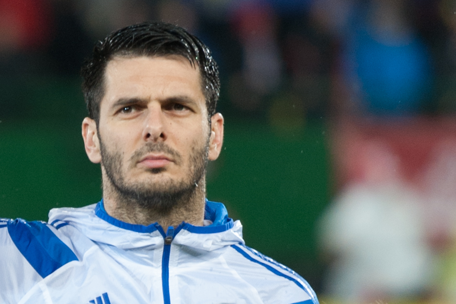 International friendly Austria vs. Bosnia and Herzegovina, 2015-03-31, Vienna